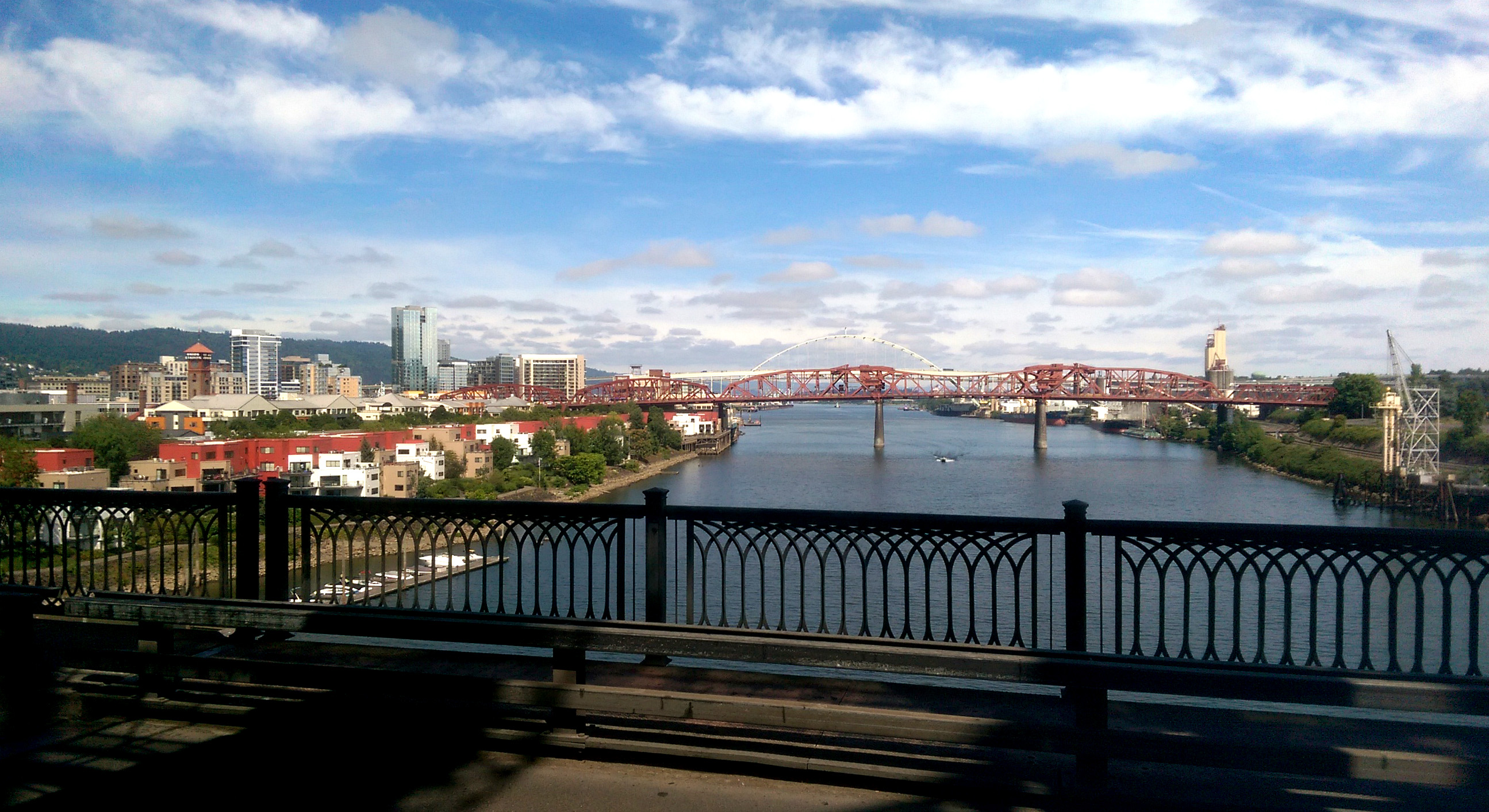 Pearl District and Broadway Bridge in Portland, Oregon